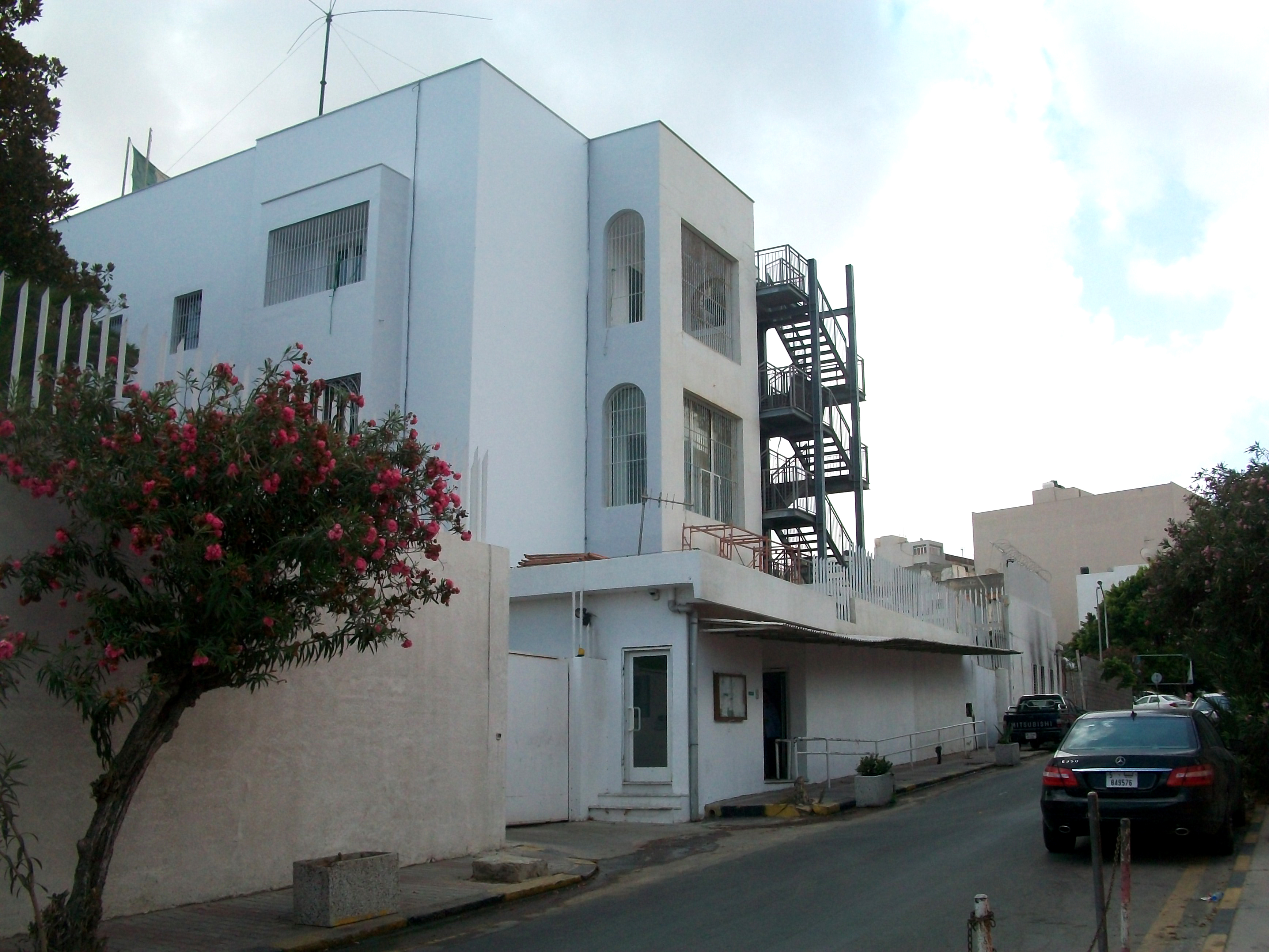 The back entrance of the Italian Consulate General on Wahran Street (Oran Street) in Libya's capital Tripoli